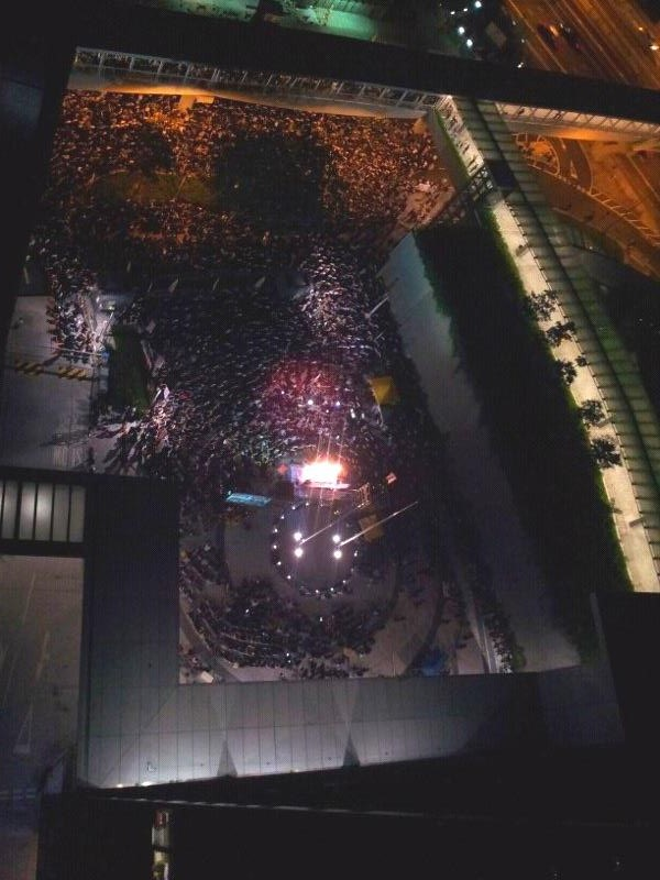 DBC at HK Central Gov. Offices